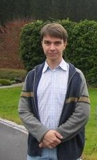 Stanislav Smirnov, Russian mathematician and Fields Medal winner Photograph taken in 2007 at the Oberwolfach-Seminar: Conformal Invariance in Mathematical Physics in Oberwolfach, Germany.